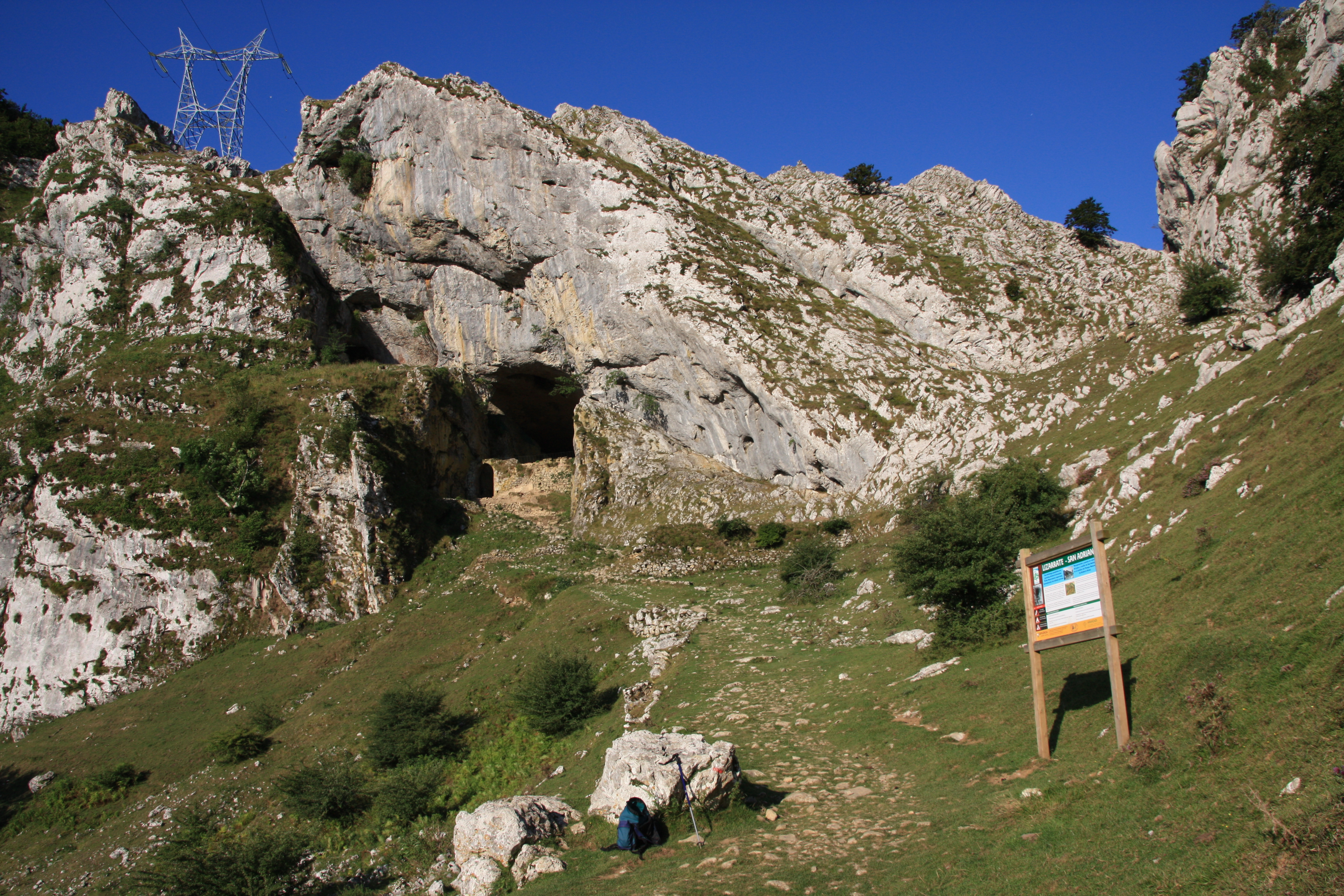 Lizarrate tunnel or mountain pass (Aizkorri, Guipuscoa, Basque Country).